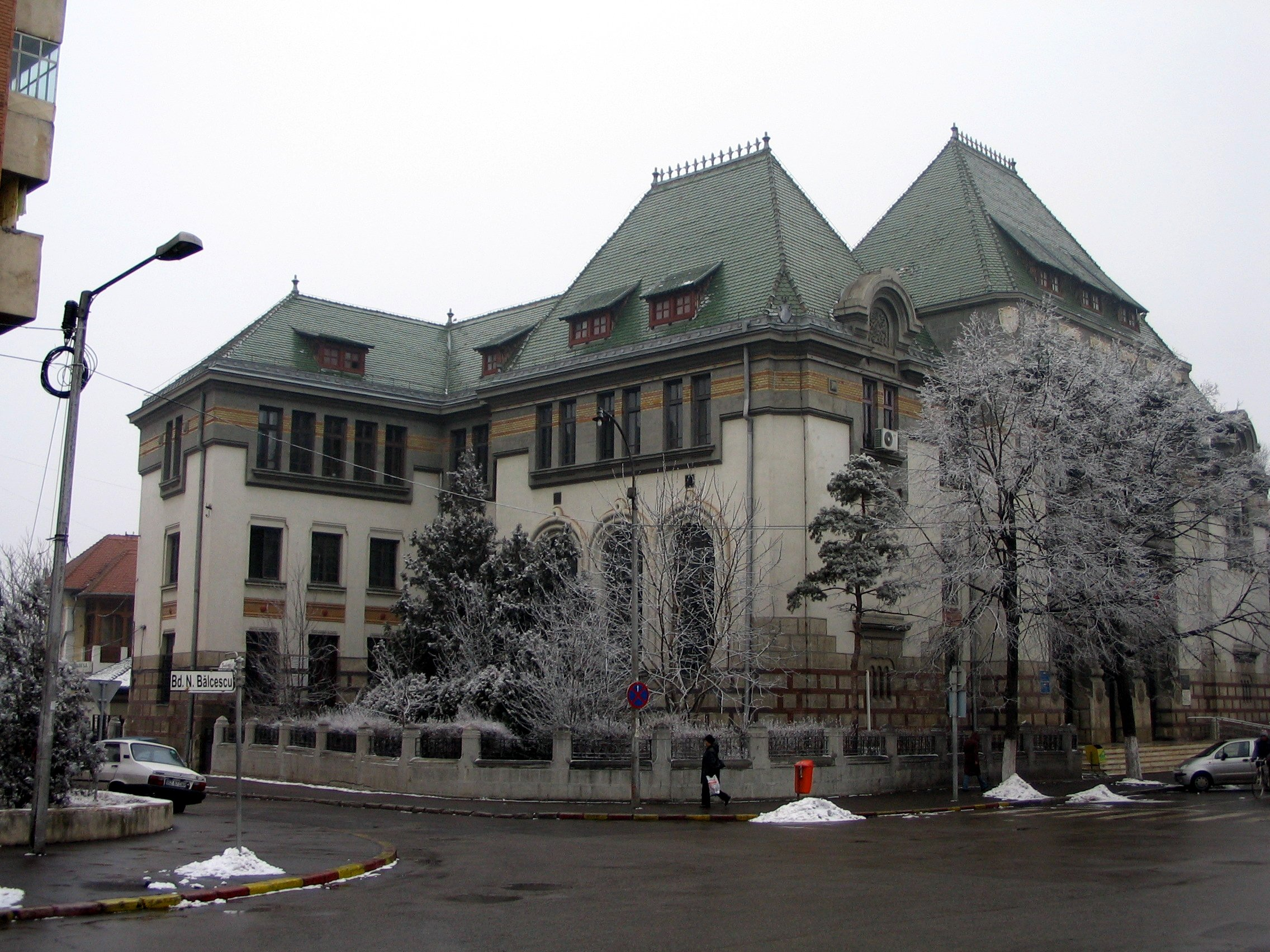 The Courthouse, Buzău, România